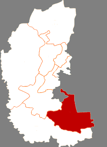 Location of Zhaozhou county in Daqing City, China